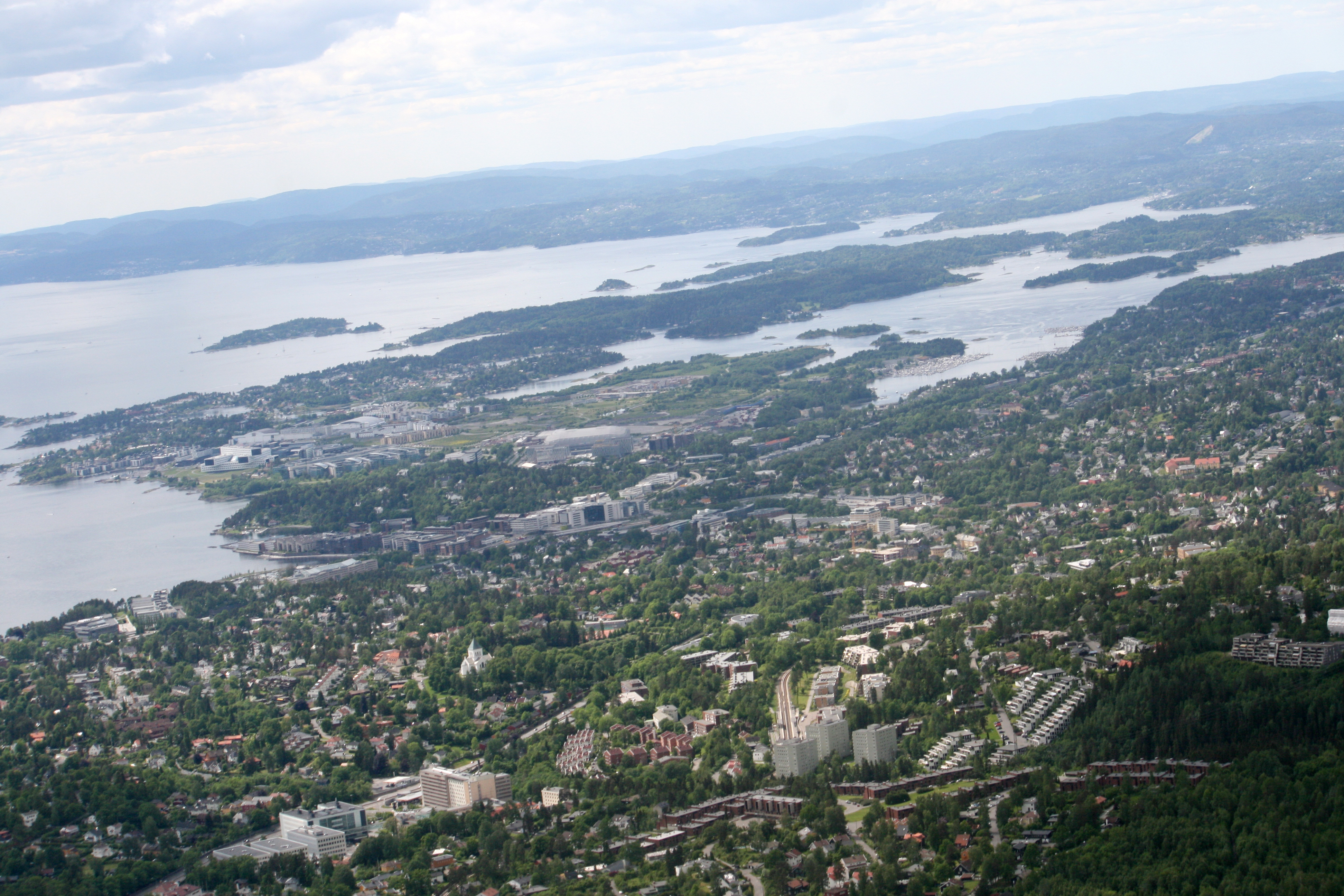 Aerial photograph from June 14th, 2015.